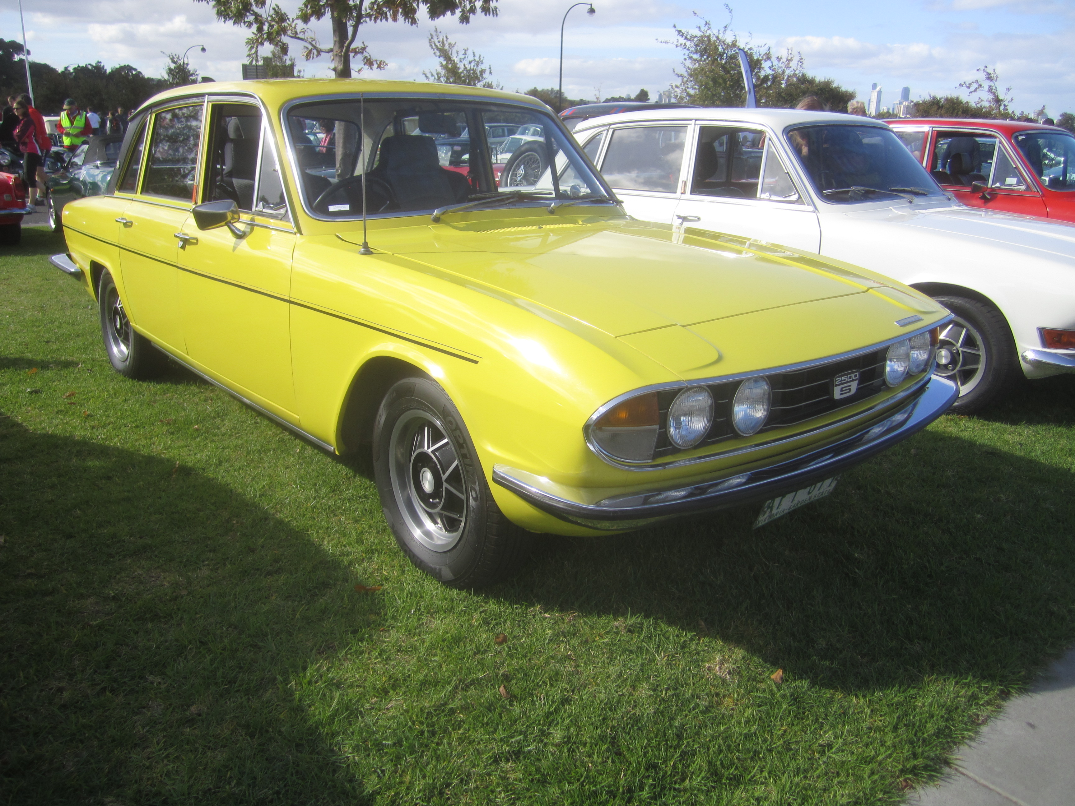 The Triumph 2000 Mk II was built from 1969-77, the updated front end, the headlights now within the grille, following the lines of the new Triumph Stag.. It was available in base 2000 or 2500, the upmarket TC and the fuel injected PI (apart from the PI all cars had twin Stromberg carburettors) In 1975 the 2500S replaced the PI, and got 14 in wheels and anti roll bar. Engine; 2500cc 6 cyl